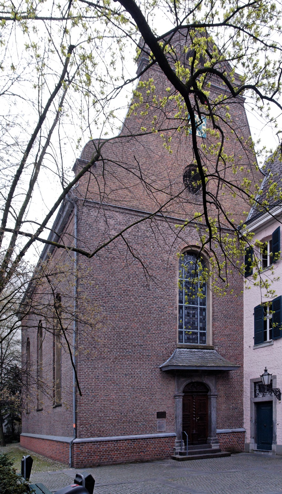 Berger Church in Düsseldorf-Altstadt, Germany